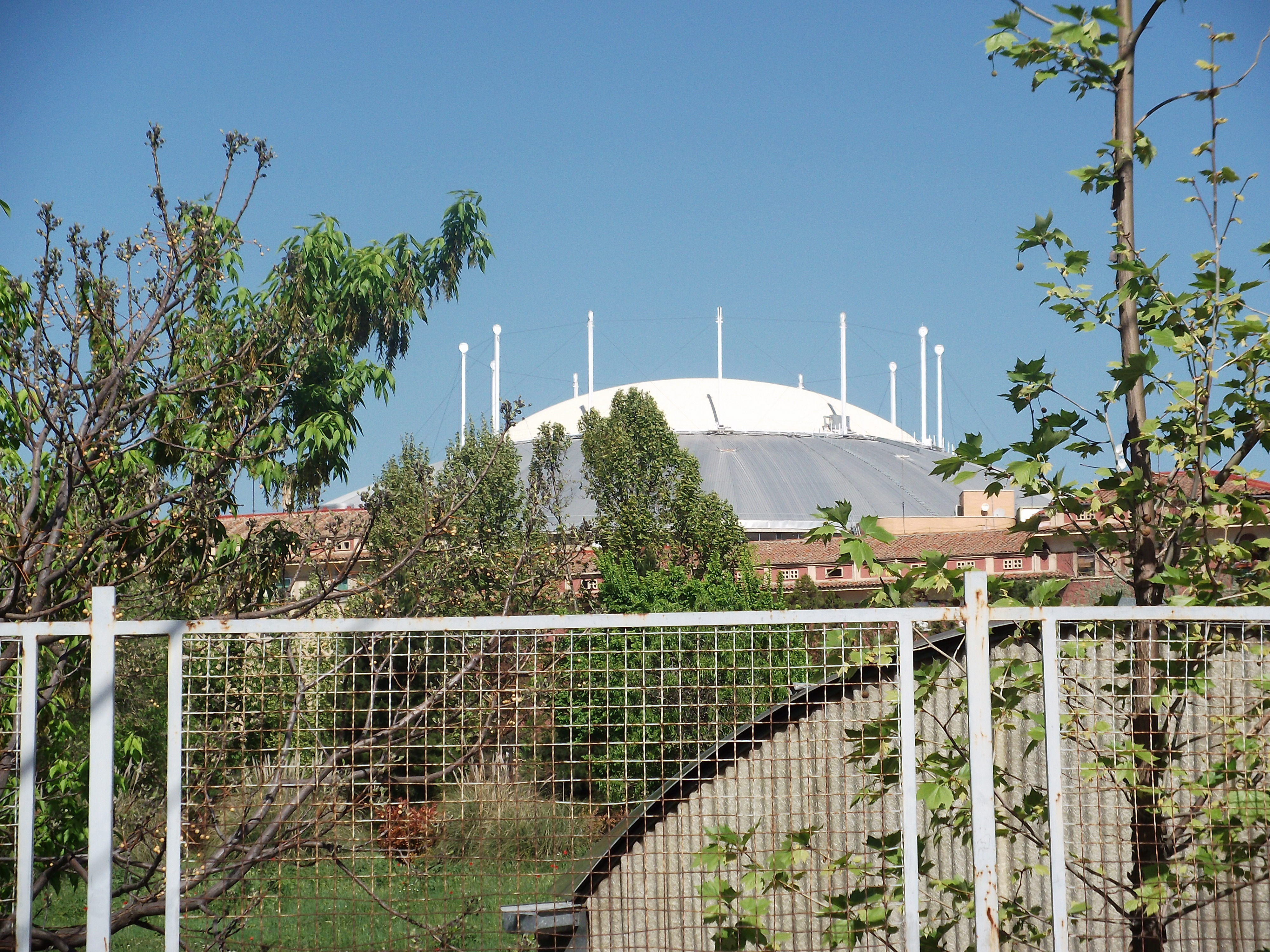 Vista de la cúpula de plaza de toros de Vista Alegre, Carabanchel